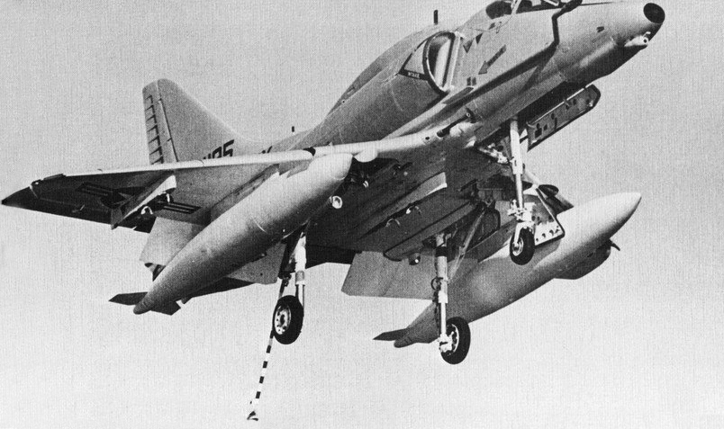 A U.S. Navy Douglas A-4E Skyhawk landing aboard the aircraft carrier USS Franklin D. Roosevelt (CVA-42) in October 1973. 36 Skyhawks were delivered to Israel from U.S. stocks during the Yom Kippur War to replace losses. Staging from Lajes, the aircraft were refueled by U.S. Air Force Boeing KC-135A tankers from Pease Air Force Base, New Hampshire (USA), and U.S. Navy tankers from the USS John F. Kennedy (CVA-67) west of the Strait of Gibraltar. They then flew on to the Franklin D. Roosevelt southeast of Sicily where they stayed overnight, then continued on to Israel refueling once more from tankers launched from the USS Independence (CVA-62) south of Crete.